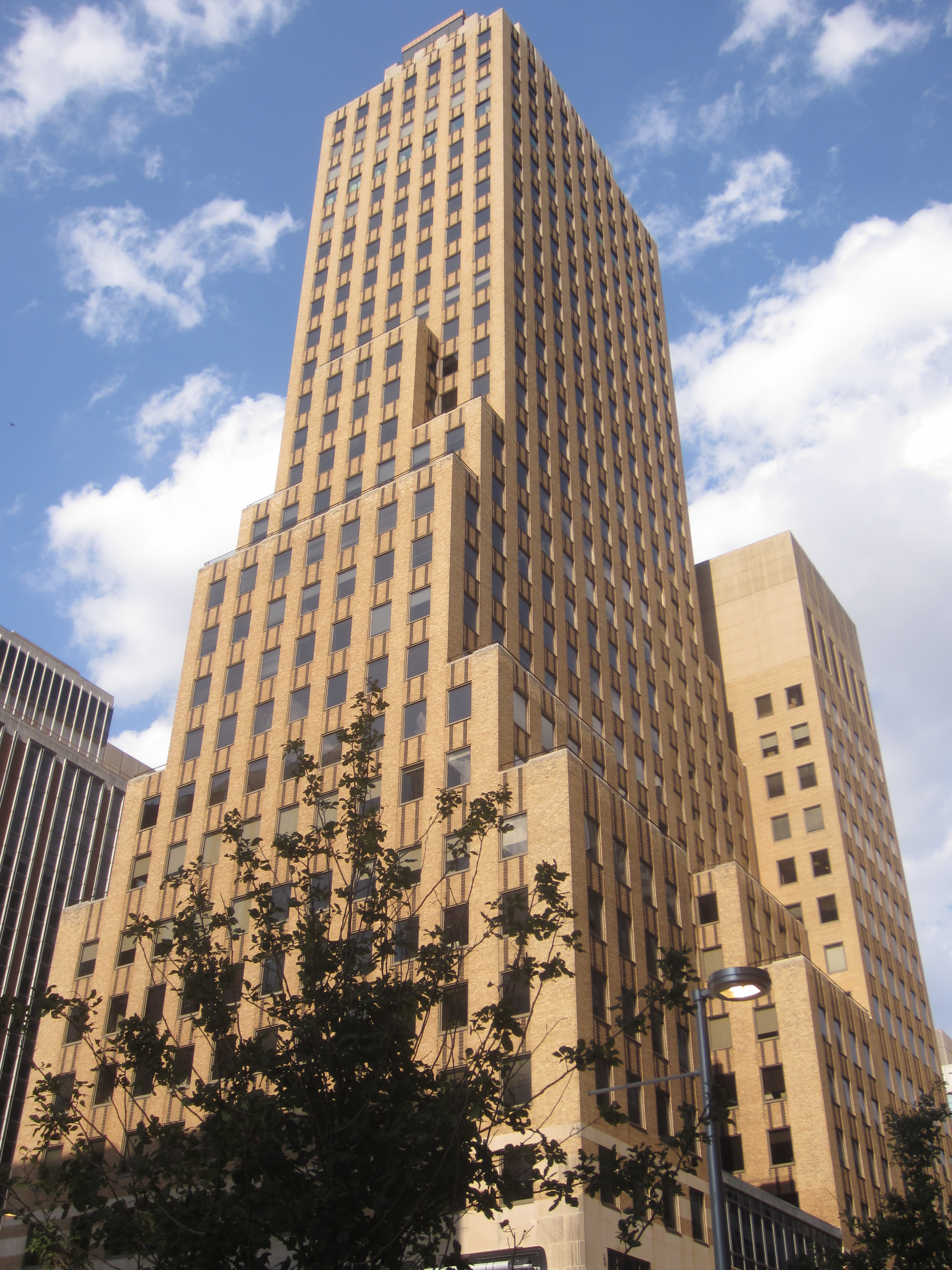 Oklahoma City (2019)